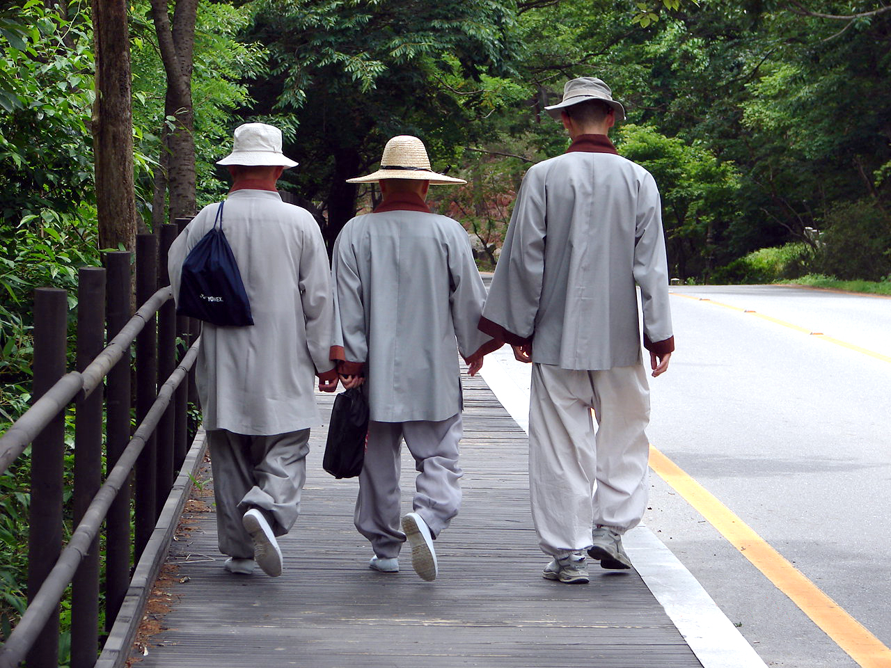 Hwaeomsa is a head temple of the Jogye Order located on the slopes of Jirisan, Gurye County, in Jeollanam-do, South Korea constructed under the Silla dynasty in 544, burned down during the Seven Year War in the 1590s, and then rebuilt.